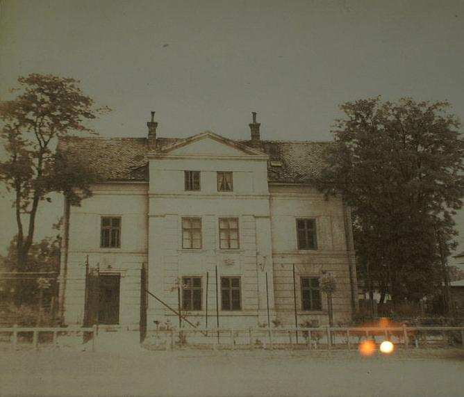 Club house has been built in 1895